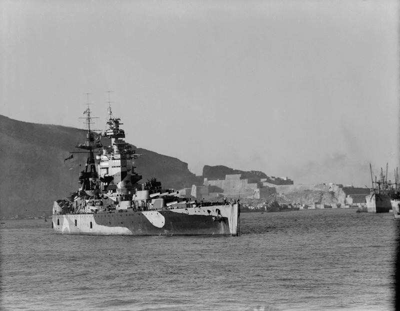 The British Navy in North African Operations. 20 November 1942, the British Navy Played a Large Part in the North African Combined Operation . HMS NELSON anchored off Mers-el-Kebir.